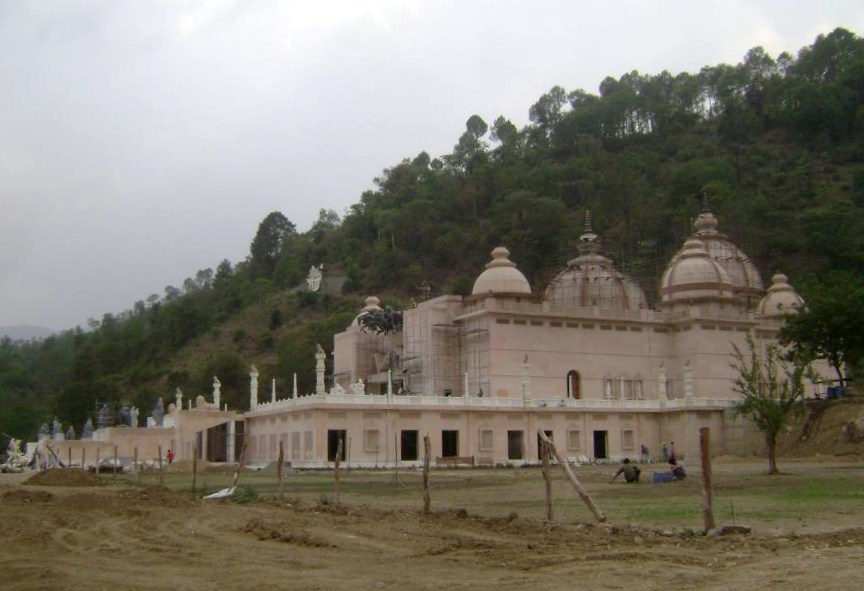 Mohan Shakti National Heritage Park